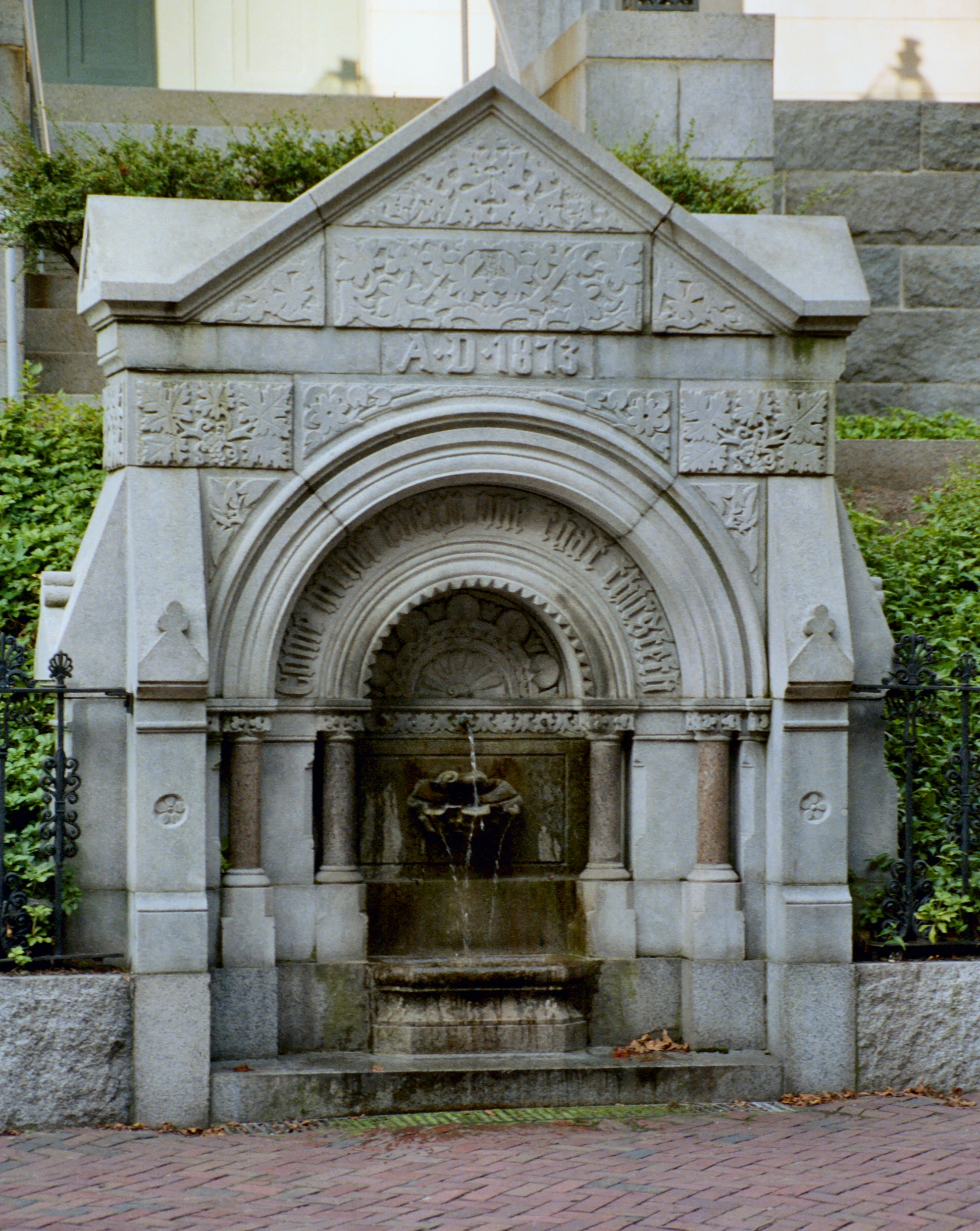 Fountain in front of the Providence Athenaeum at 251 Benefit Street in Providence, Rhode Island.